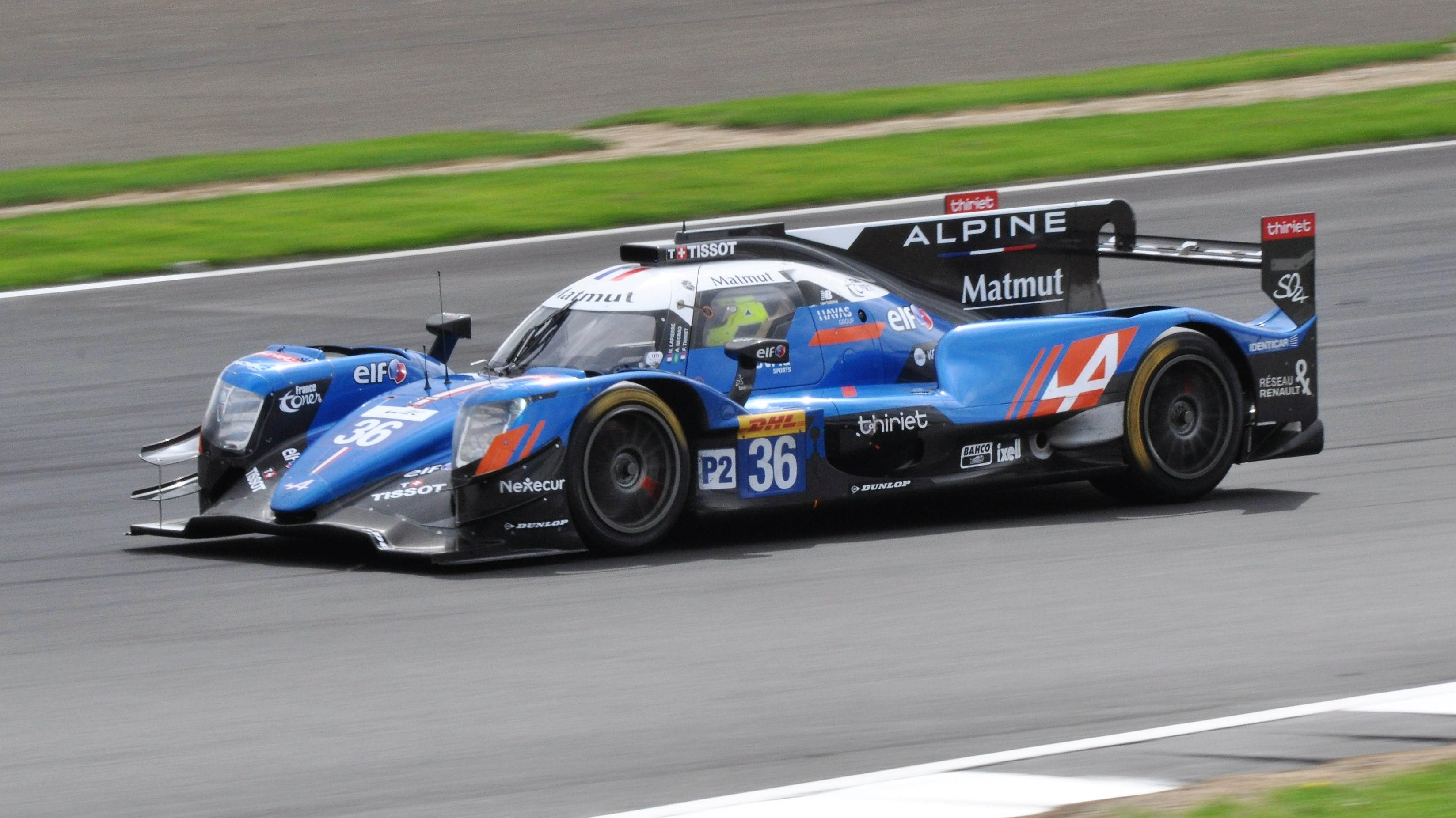 Brazilian driver André Negrão guides the number 36 Signatech-entered Alpine A470 car into Village corner during the 2018 6 Hours of Silverstone race. Negrão and his co-drivers, Nicolas Lapierre and Pierre Thiriet, eventually finished third in the LMP2 class.